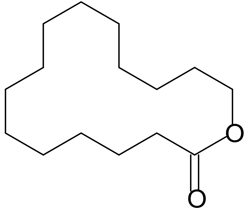 Skeletal structure of cyclopentadecanolide (angelica lactone; muskalactone; exaltolide)